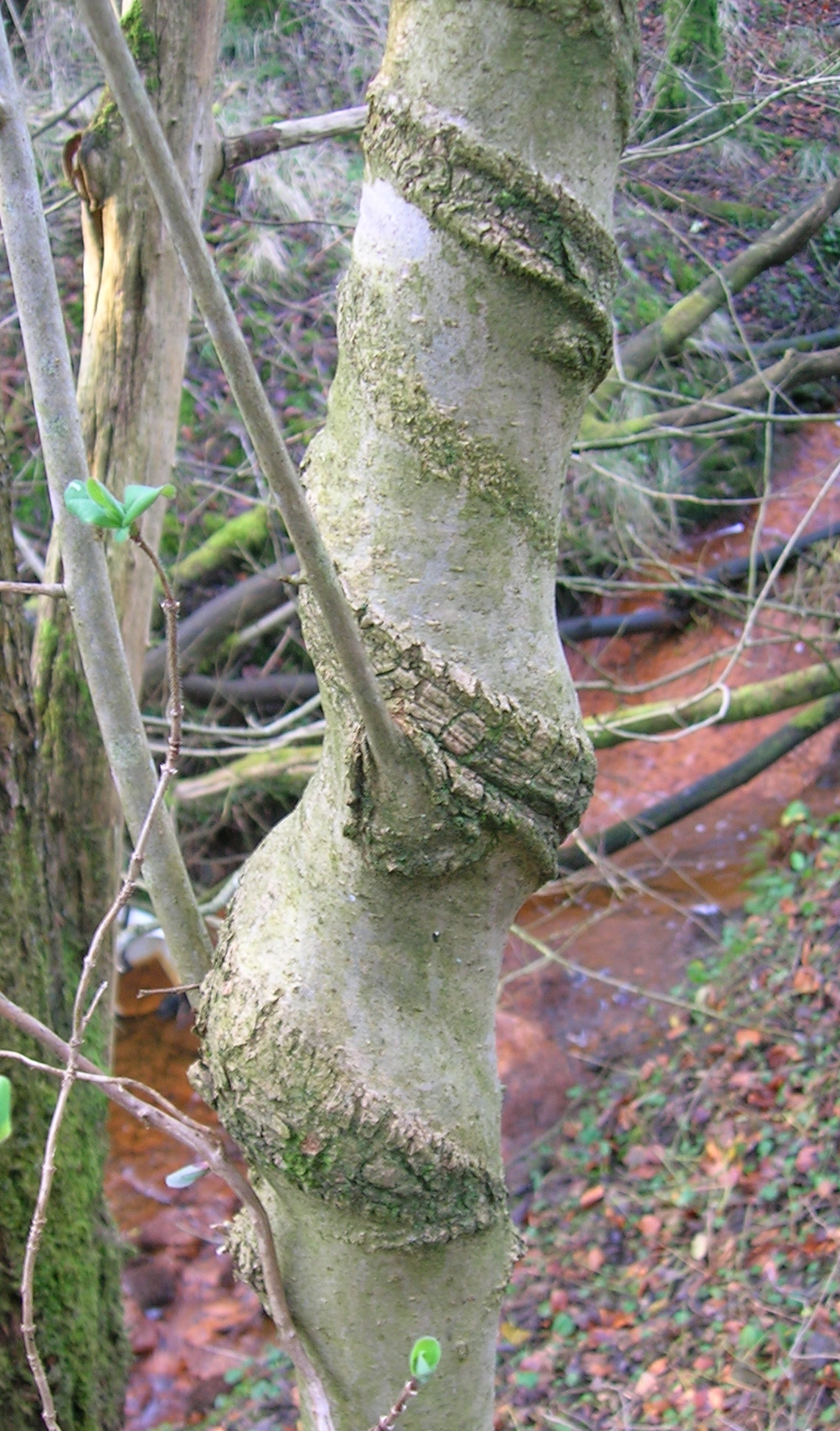 Hazel tree with honeysuckle entwined, Cessnock Woods, East Ayrshire, Scotland.